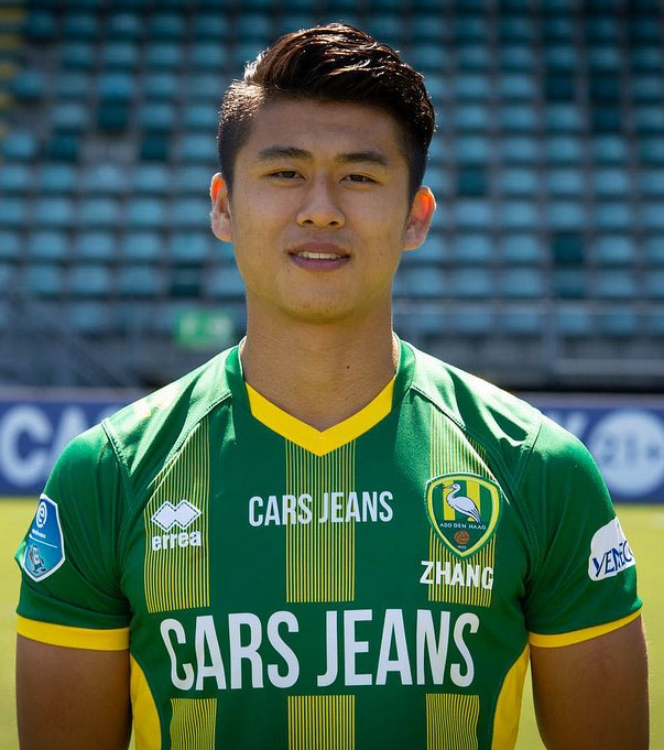 Zhang Yuning